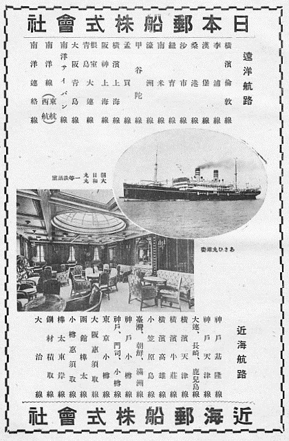 Nippon Yusen advertisement in 1930s